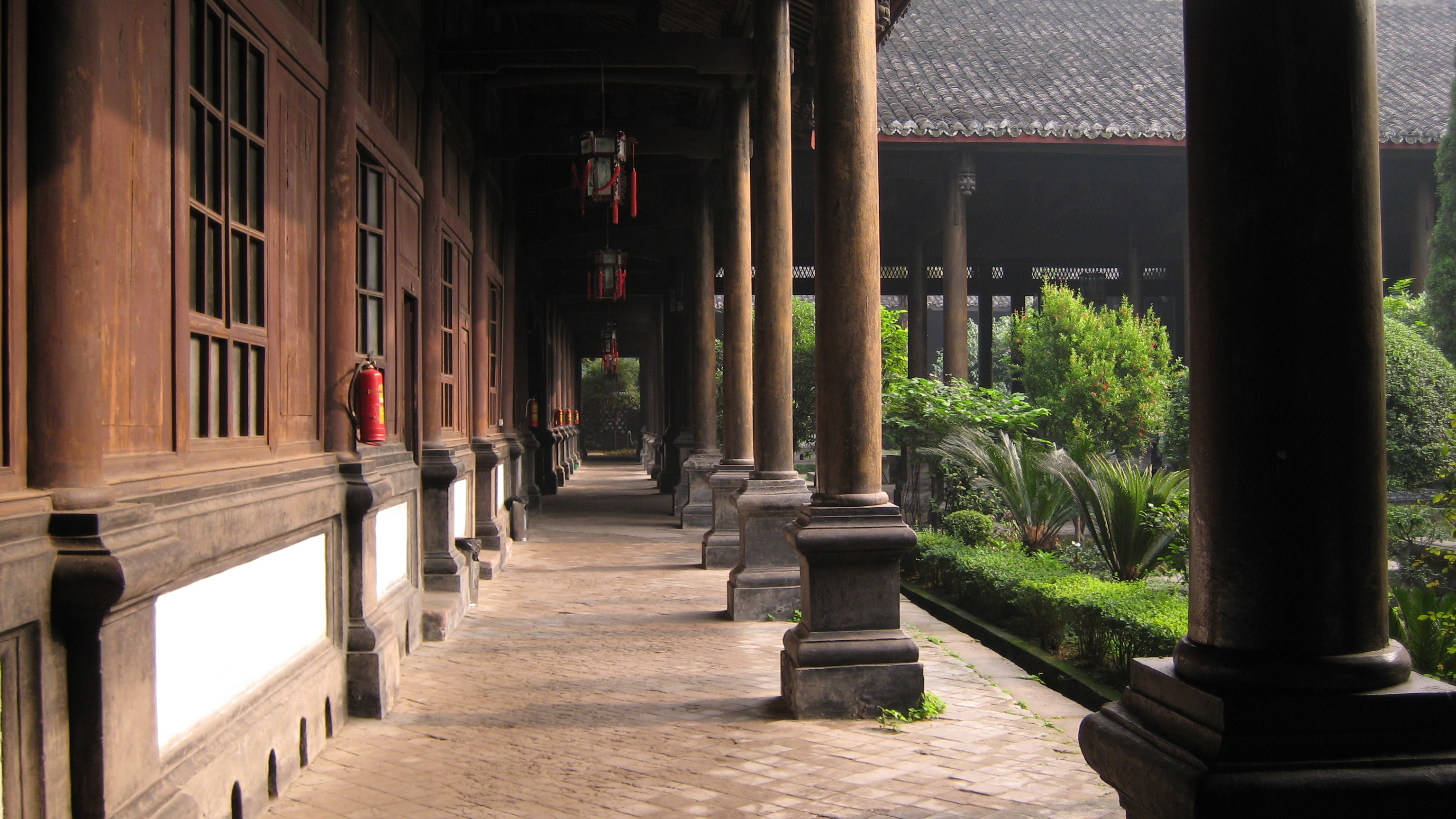 South loggia at Chengdu church bishop's house